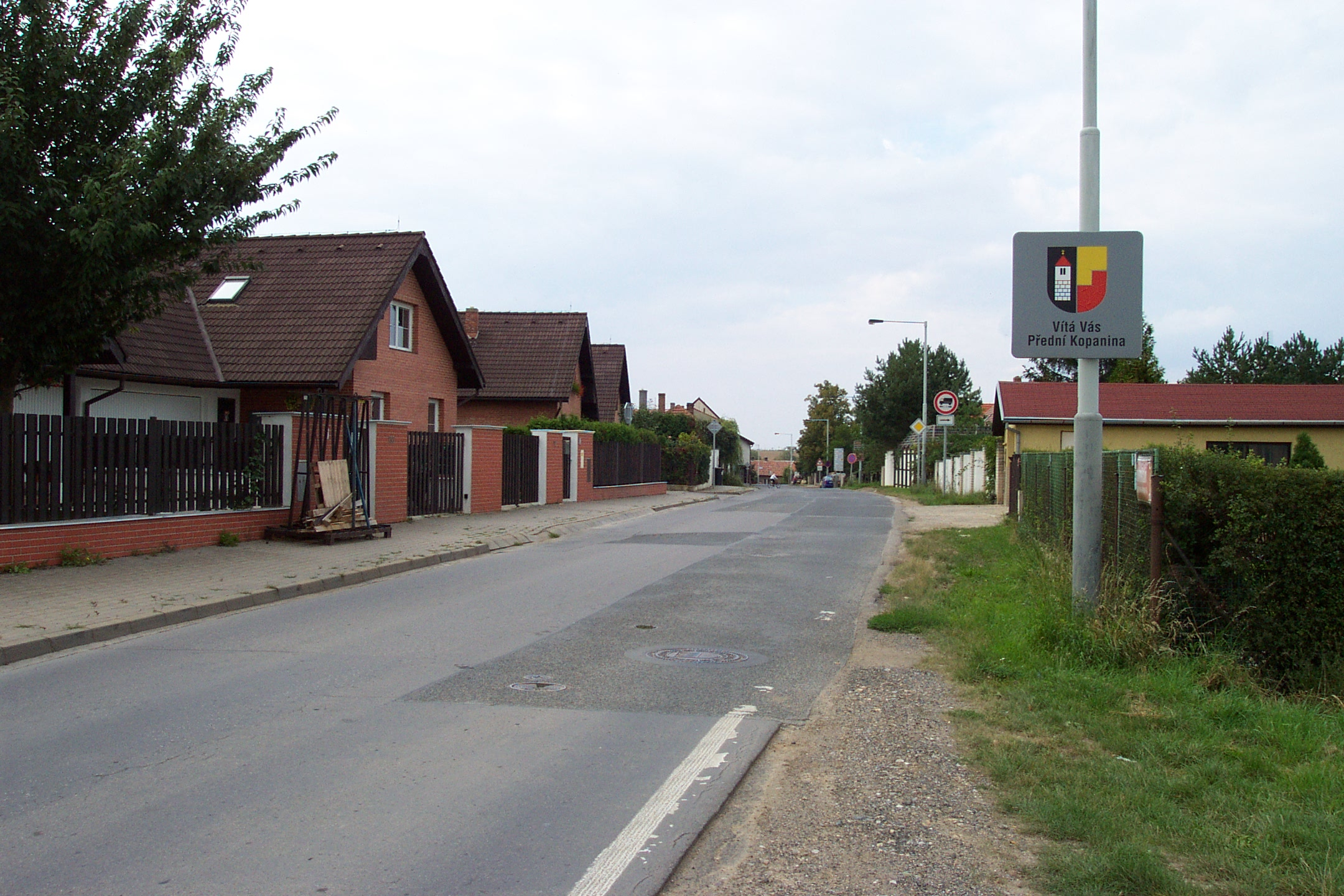 Přední Kopanina, part of the city on the northwest edge of Prague